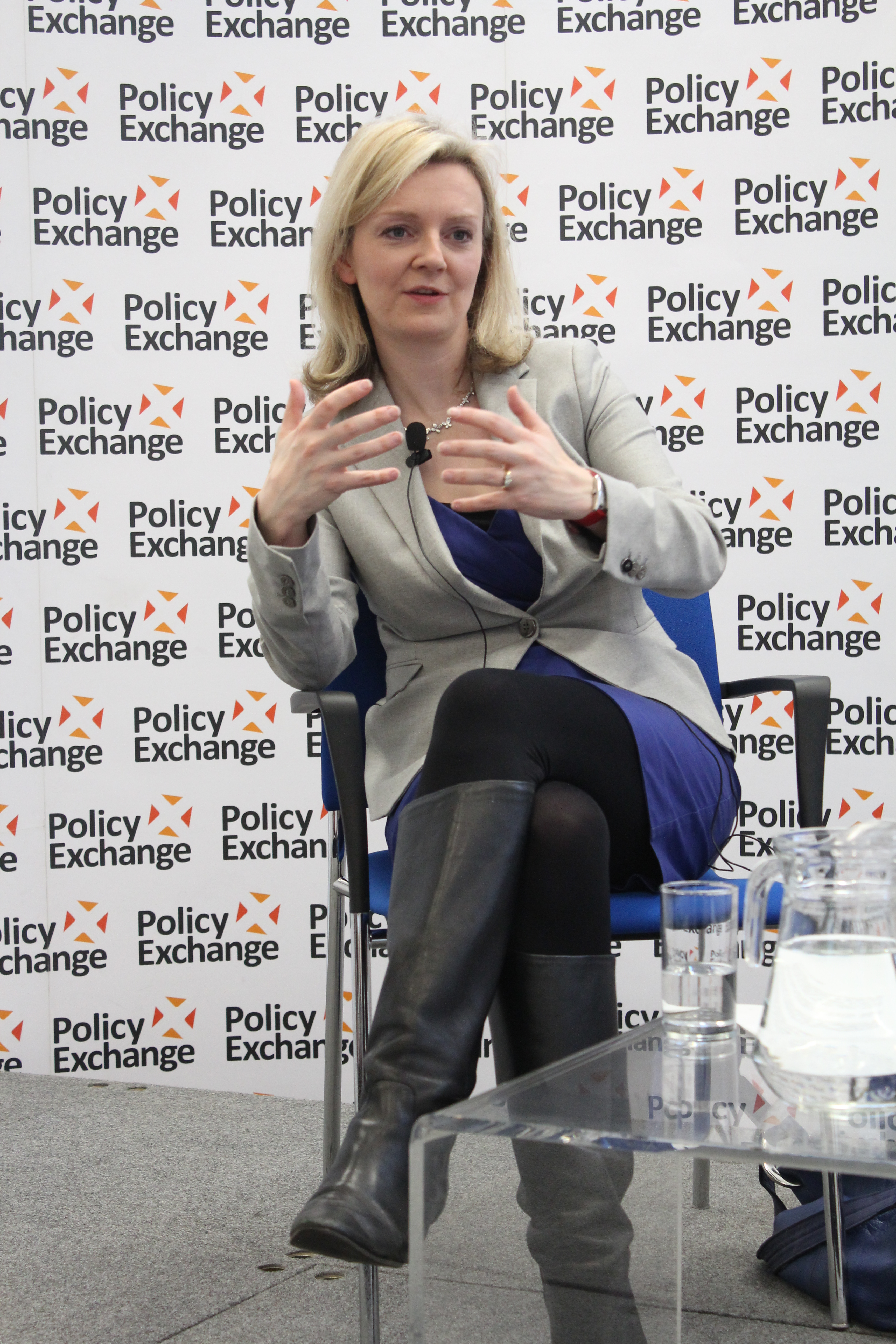 A copy of the speech can be found at